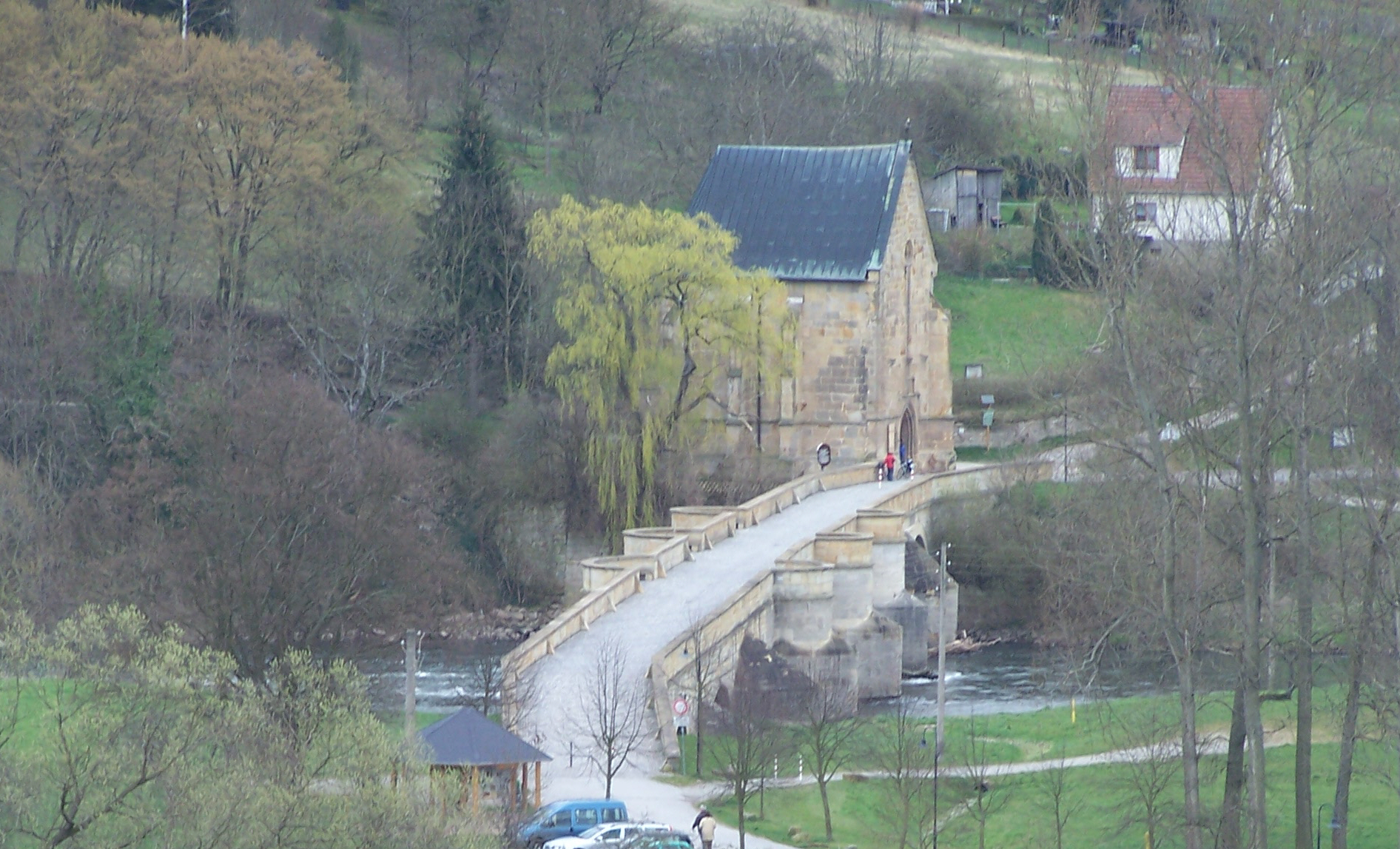 The Liborius chappel and Werra bridge in Creuzburg.